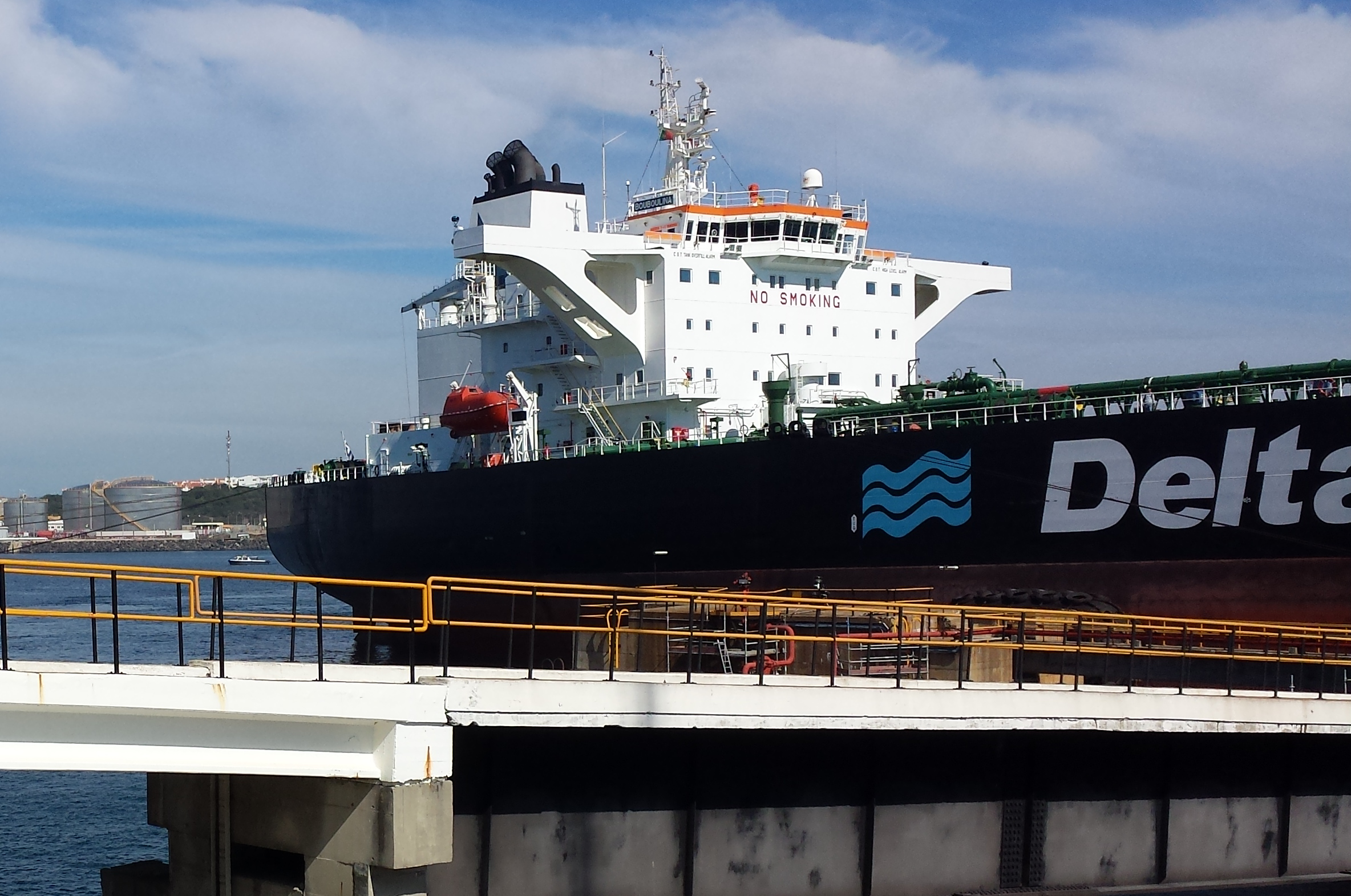 Crude tankership transaction port for loading and unloading oil cargoes.